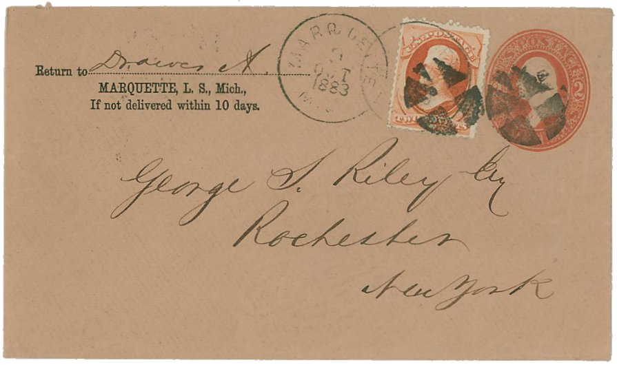 Example of Earliest Reported Postmark on an 1883 Plimpton stamped envelope.